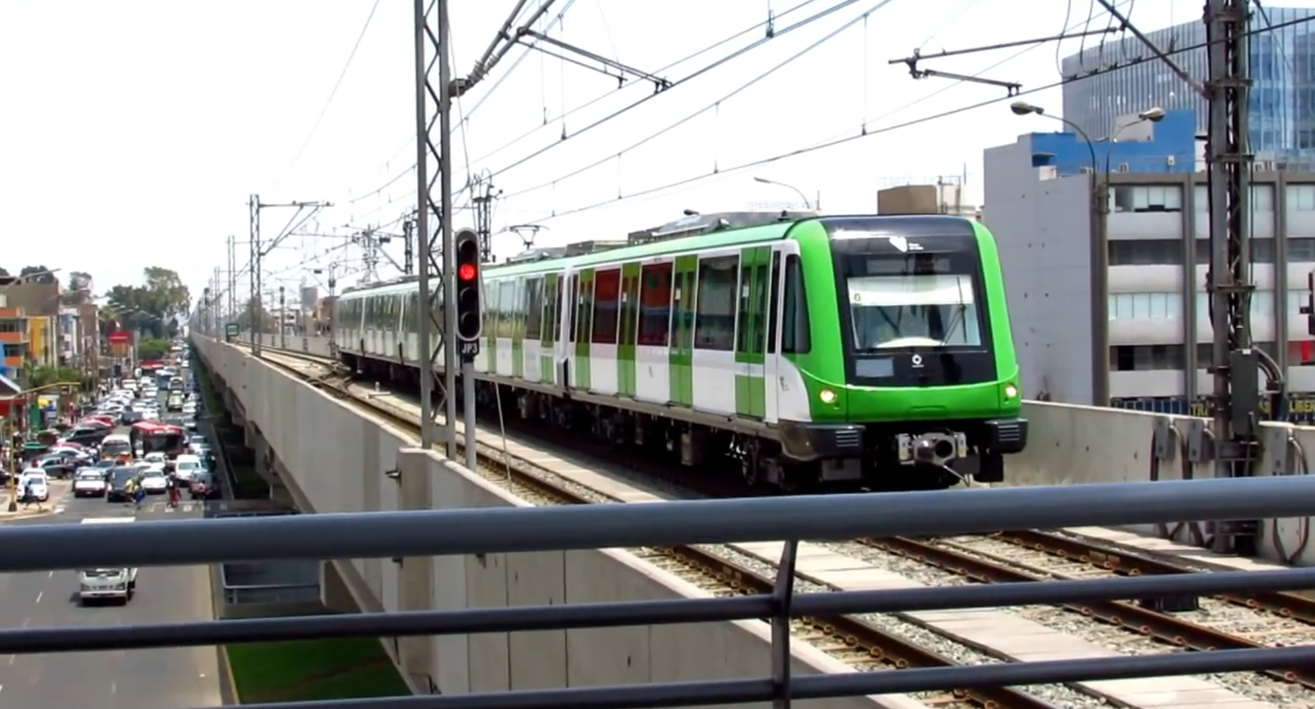 Alstom Metropolis 9000 in Lima Metro (Peru).